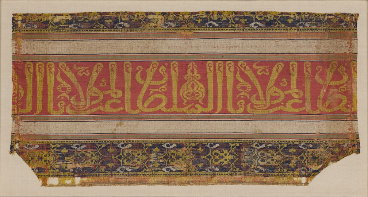 Textile fragment from the Nasrid Dynasty. Inscription reads: "Glory to our Lord the Sultan" in the Arabic Thuluth script. late 14th–early 15th century Nasrid period (1232–1492) Medium: Silk; lampas; Textile: L. 10 5/8 in. (27 cm), W. 21 1/4 in. (54 cm), Mount: L. 15 1/2 in. (39.4 cm), W. 26 in. (66 cm), D. 1 3/4 in. (4.4 cm) The Metropolitan Museum of Art, New York, Rogers Fund, 1918 (18.31)